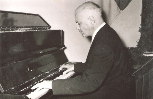 Orest Bodalew (1907–1965)